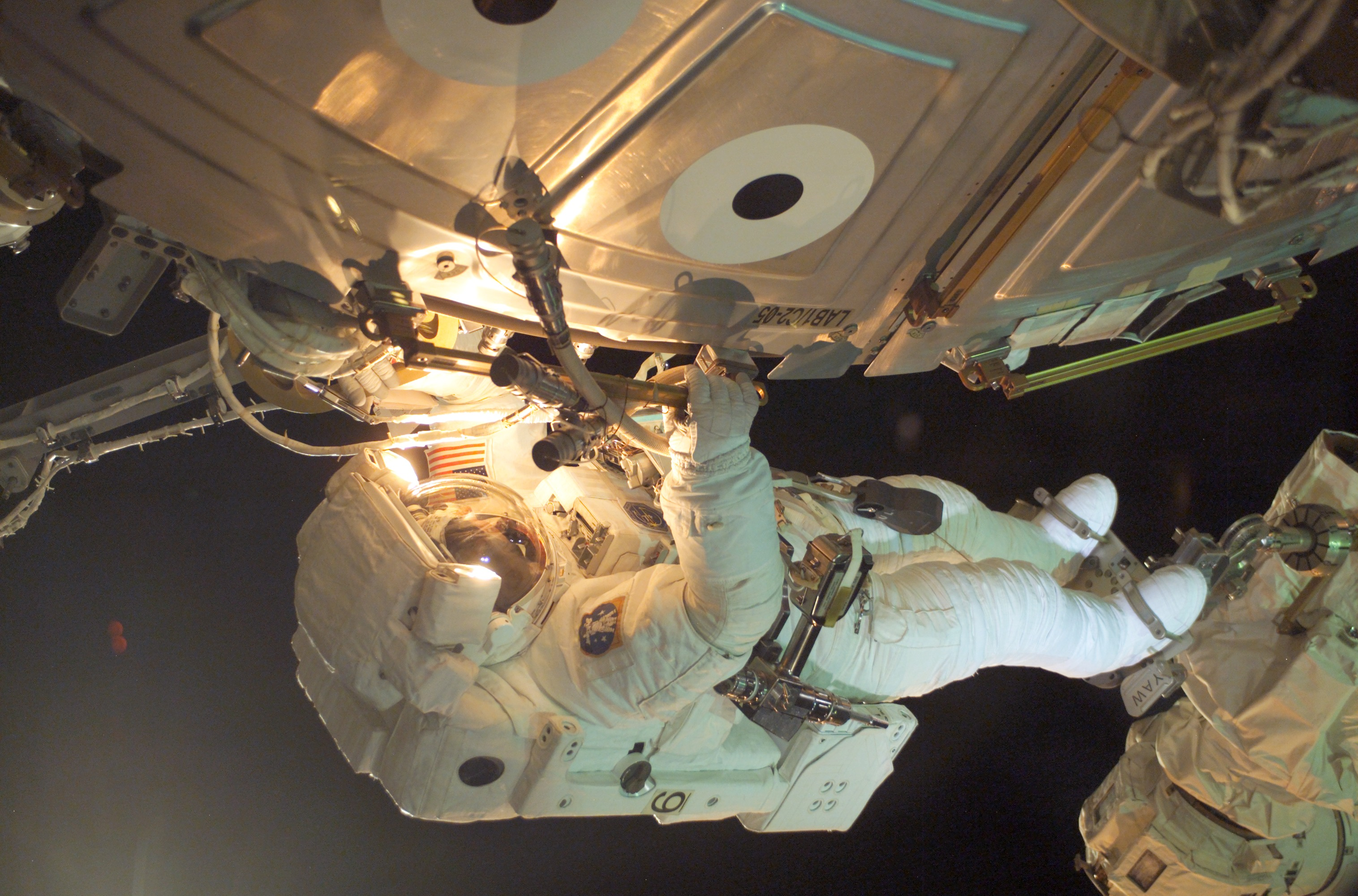 Astronaut Piers J. Sellers working on ISS